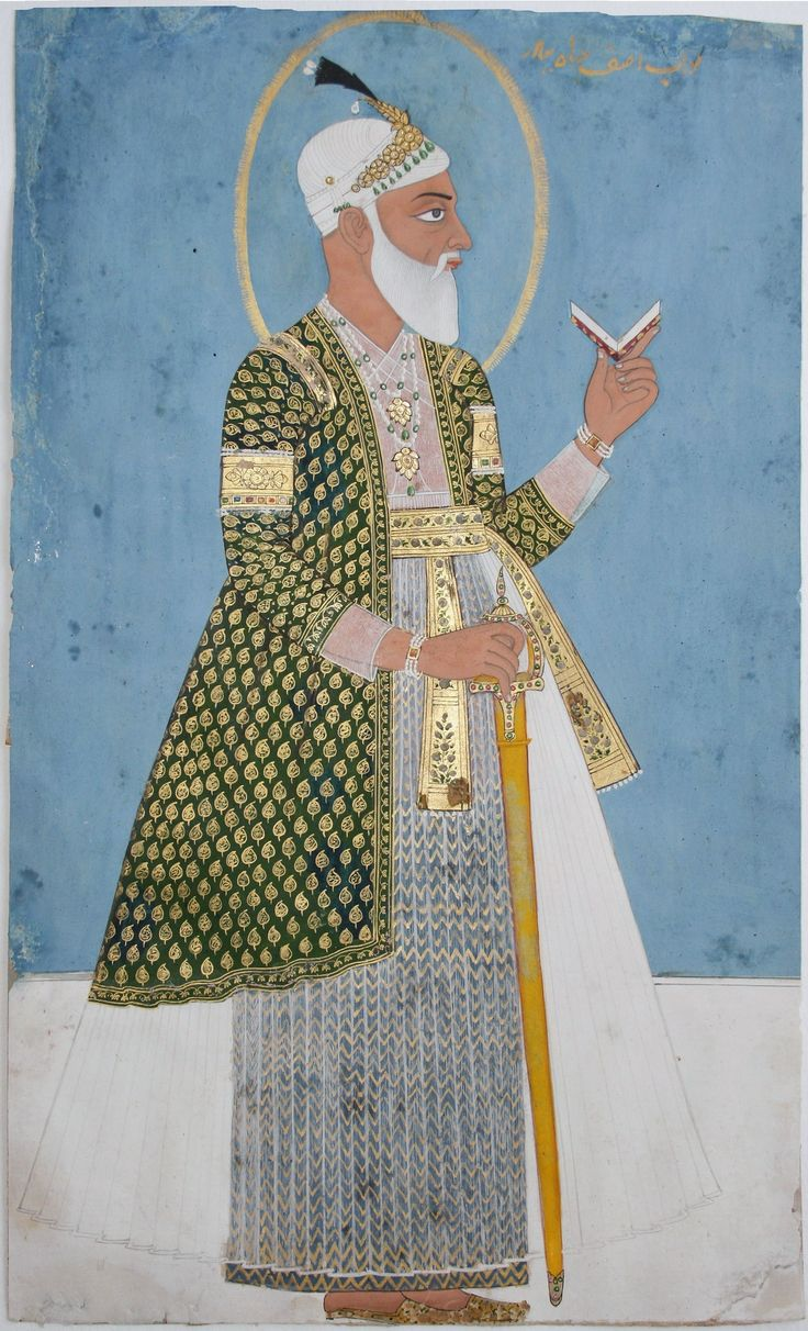 Probably from a dispersed series of rulers of Hyderabad: posthumous portrait Nizam Asaf Jah I (r. 1724-48). Hyderabad, circa 1800-10. Opaque watercolour with gold on wasli